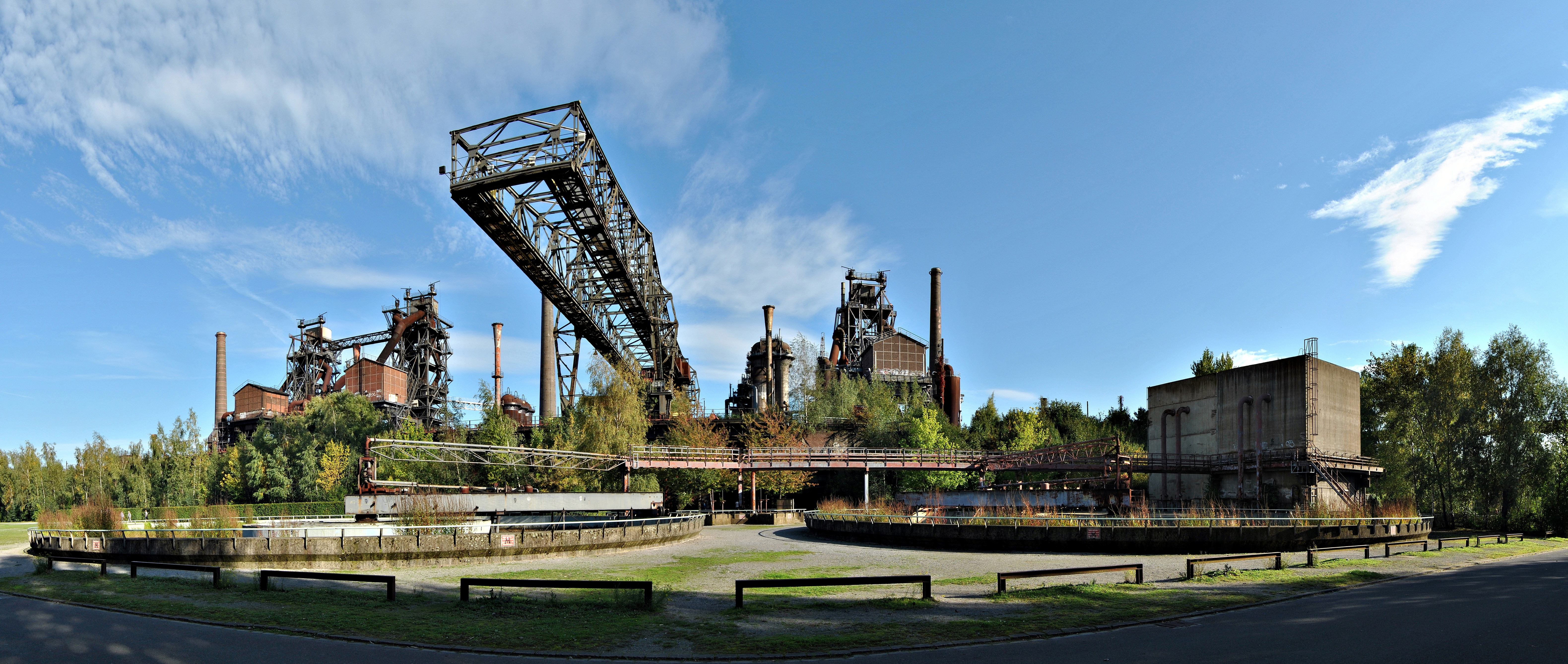 Panoramic view (140°) of the Landschaftspark Duisburg-Nord, in Duisbourg, Germany.